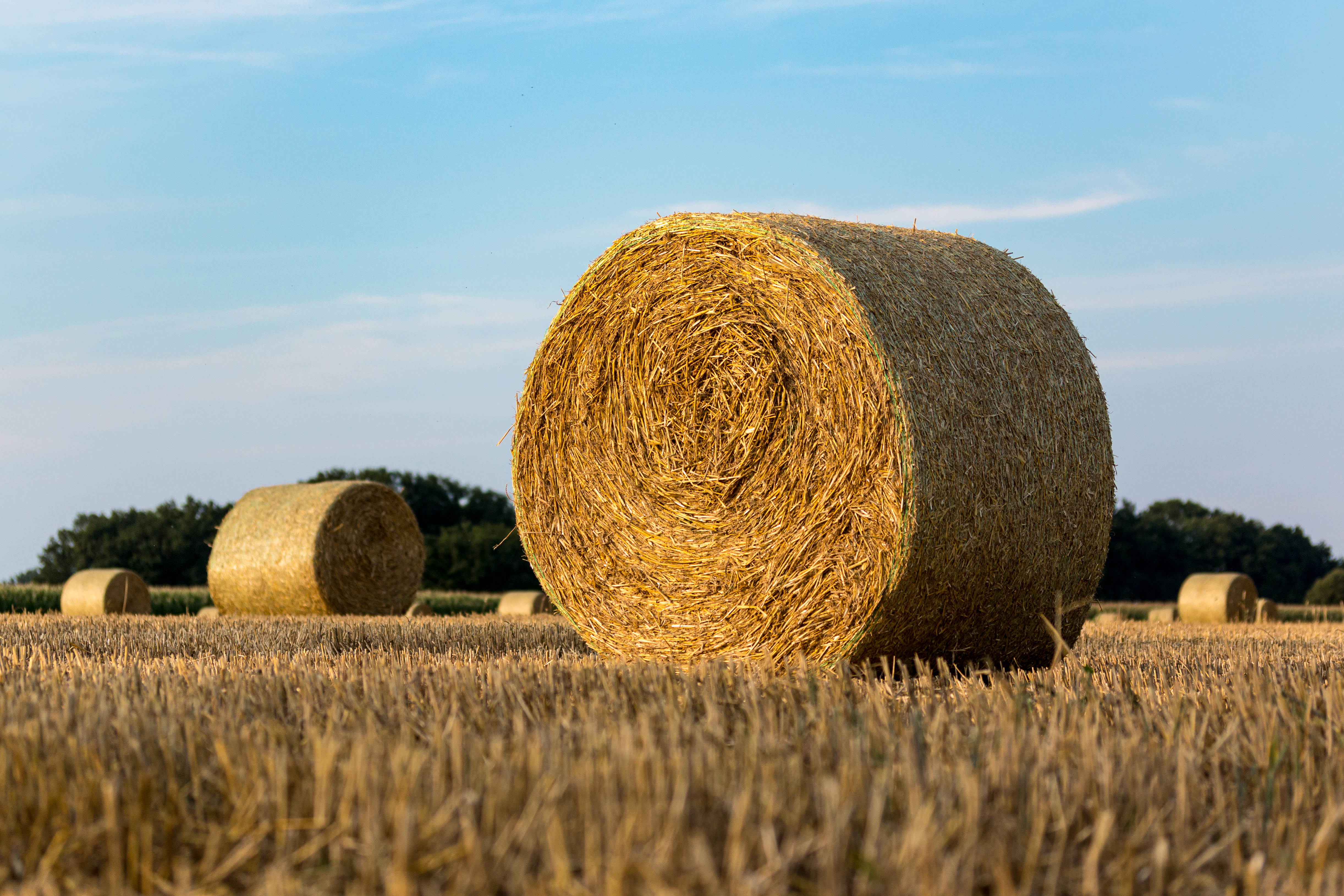 Straw bales in a field in the Dernekamp hamlet, Kirchspiel, Dülmen, North Rhine-Westphalia, Germany